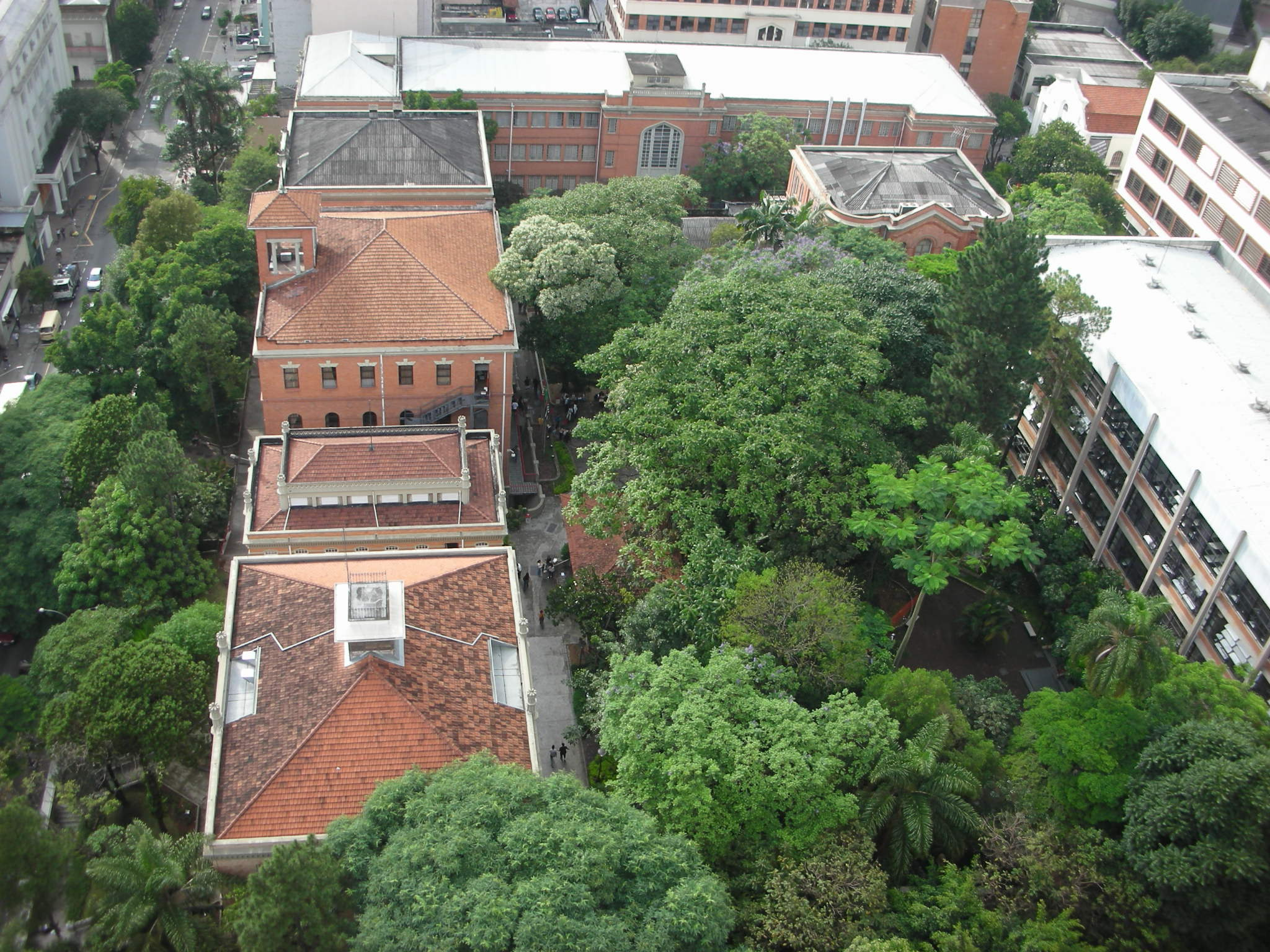 Taken from Olympis Apartments